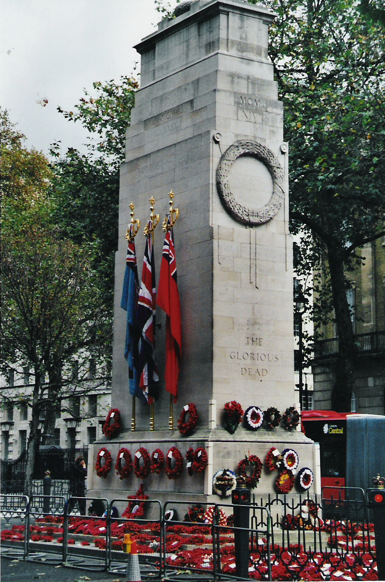 The Cenotaph on Whitehall, London, in November 2004 (with wreaths laid down on Remembrance Day). Photo Chris Nyborg.